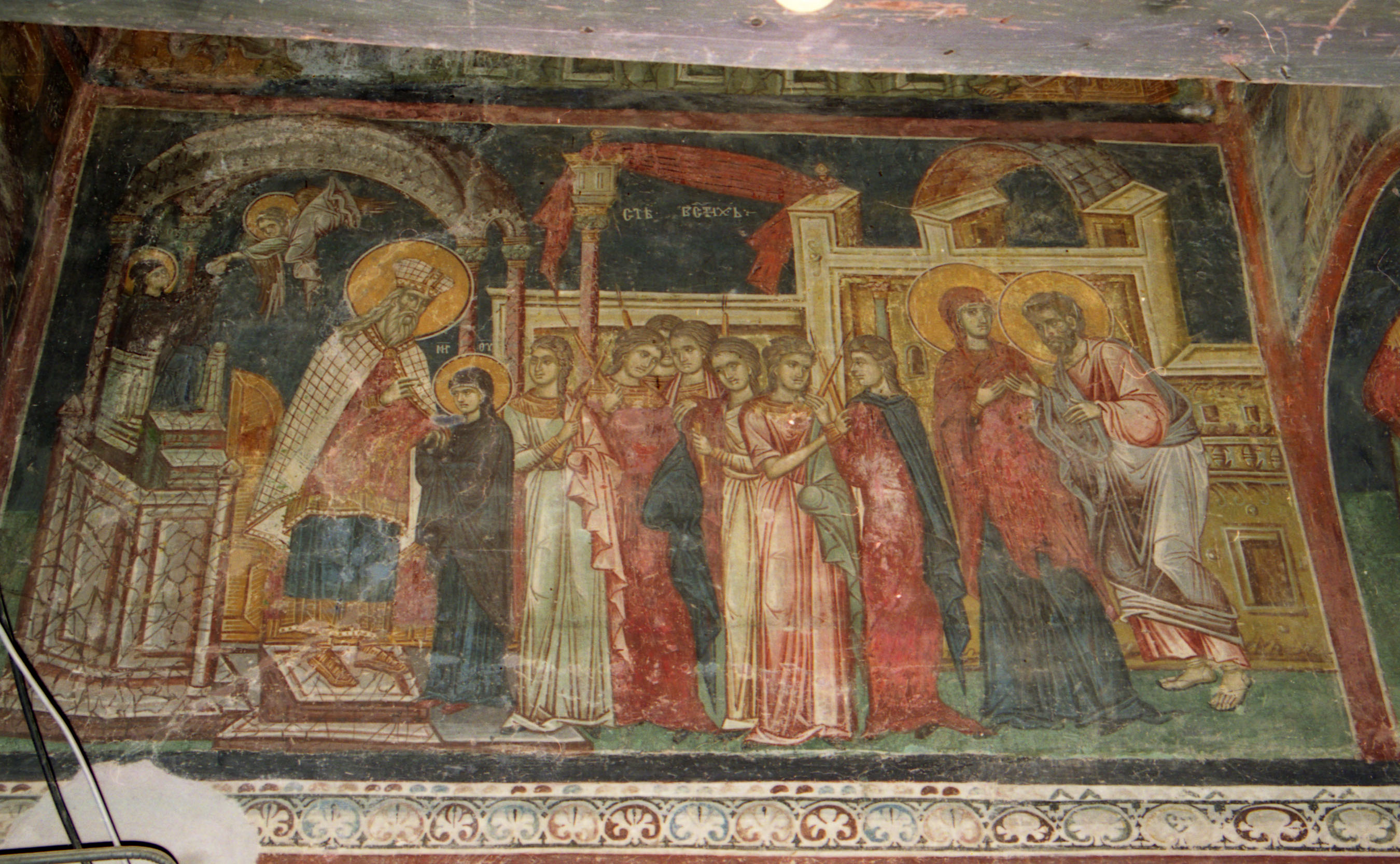 Frescos in the Orthodox Church of the Presentation of Virgin Mary from XIII century in Kučevište near Skopje in Macedonia